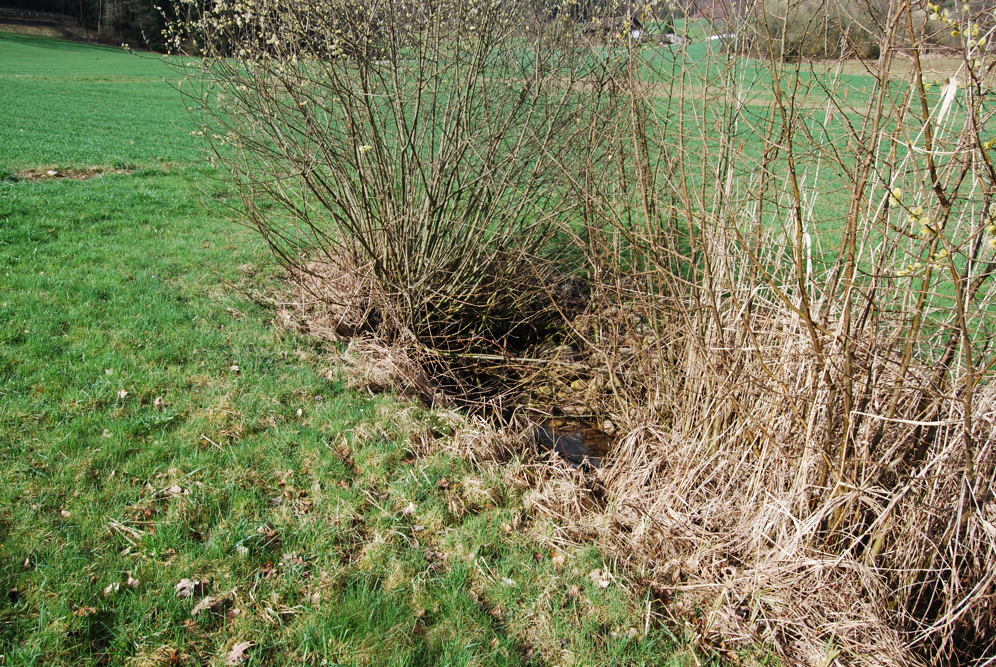 Source of Tägerbach at Siglistorf, canton of Aargau, SwitzerlandEsperanto: Fonto de Tägerbach en Siglistorf, Kantono Argovio, Svislando